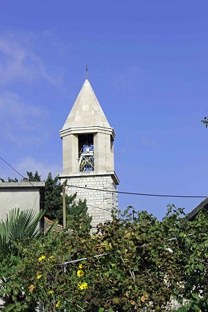 Church of St. Cassian